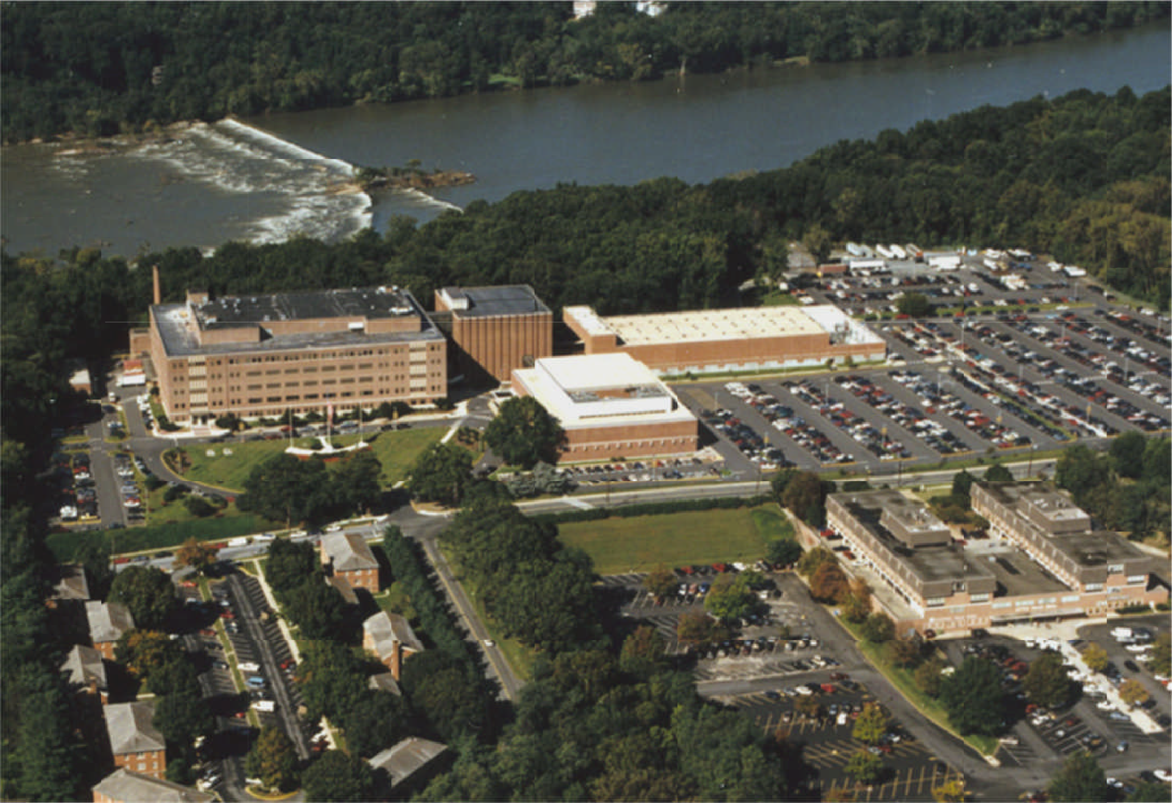 Headquarters of the National Geospatial-Intelligence Agency prior to 2012. The site was subsequently renovated into the Intelligence Community Campus-Bethesda.